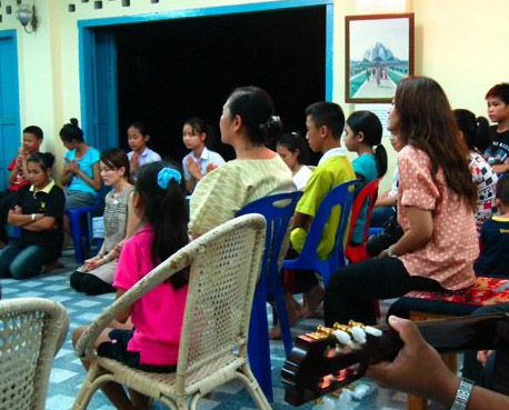 An assembled crowd sings songs at the National Baha'i Centre in Vientiane, Laos, in August 2009.